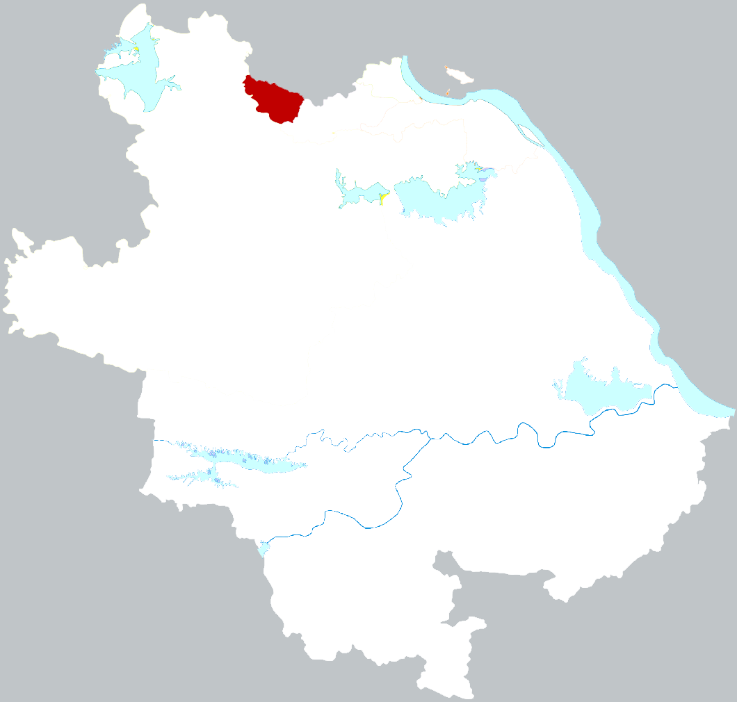 Location of Tieshan district in Huangshi city, China